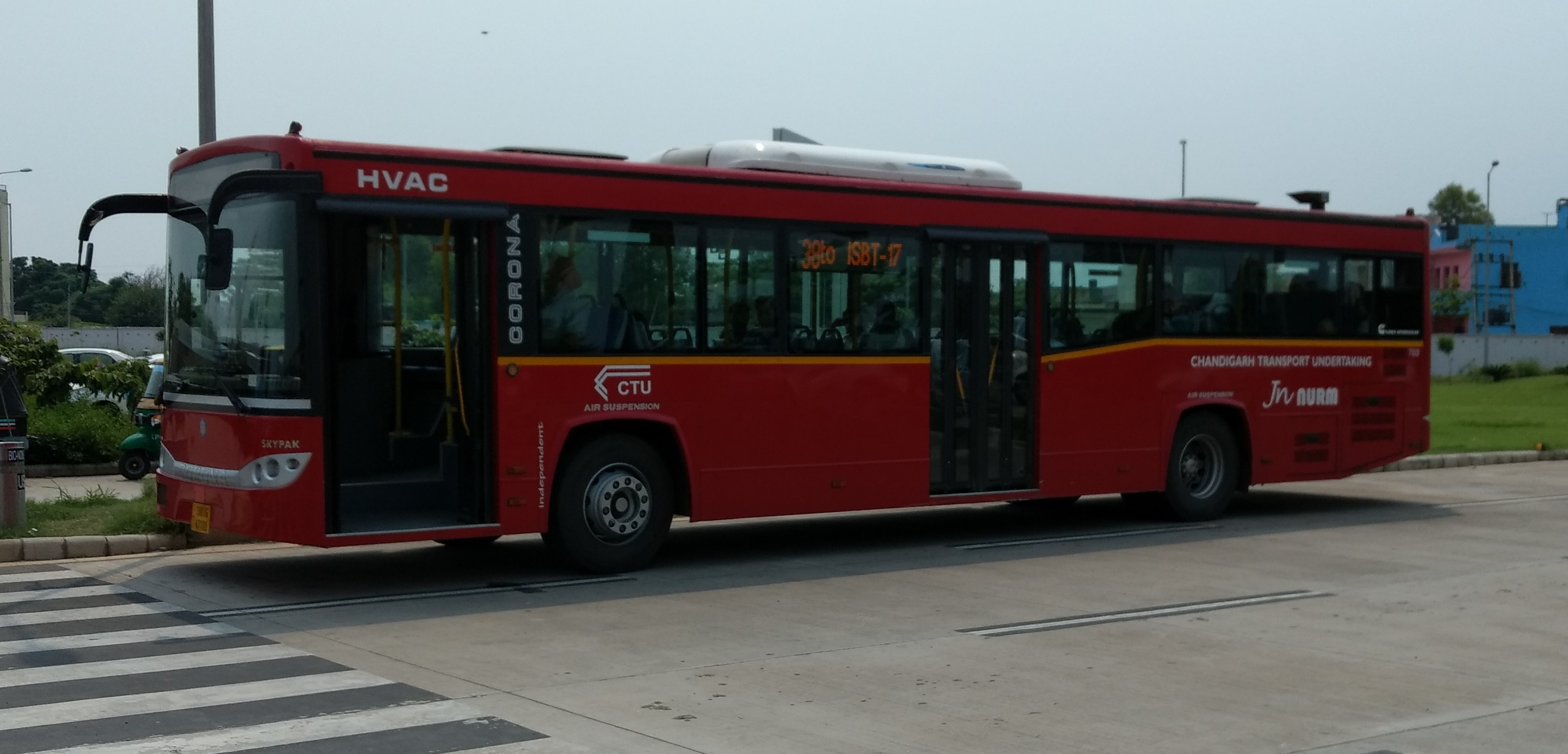 CTU Bus No. 38 at Mohali Terminal